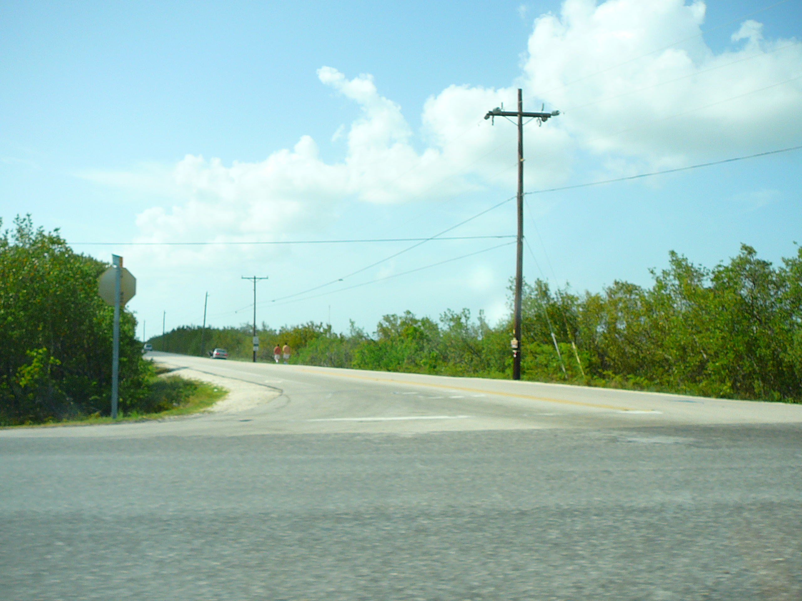 Digital photo taken by Marc Averette. Little Torch Key in the Florida Keys